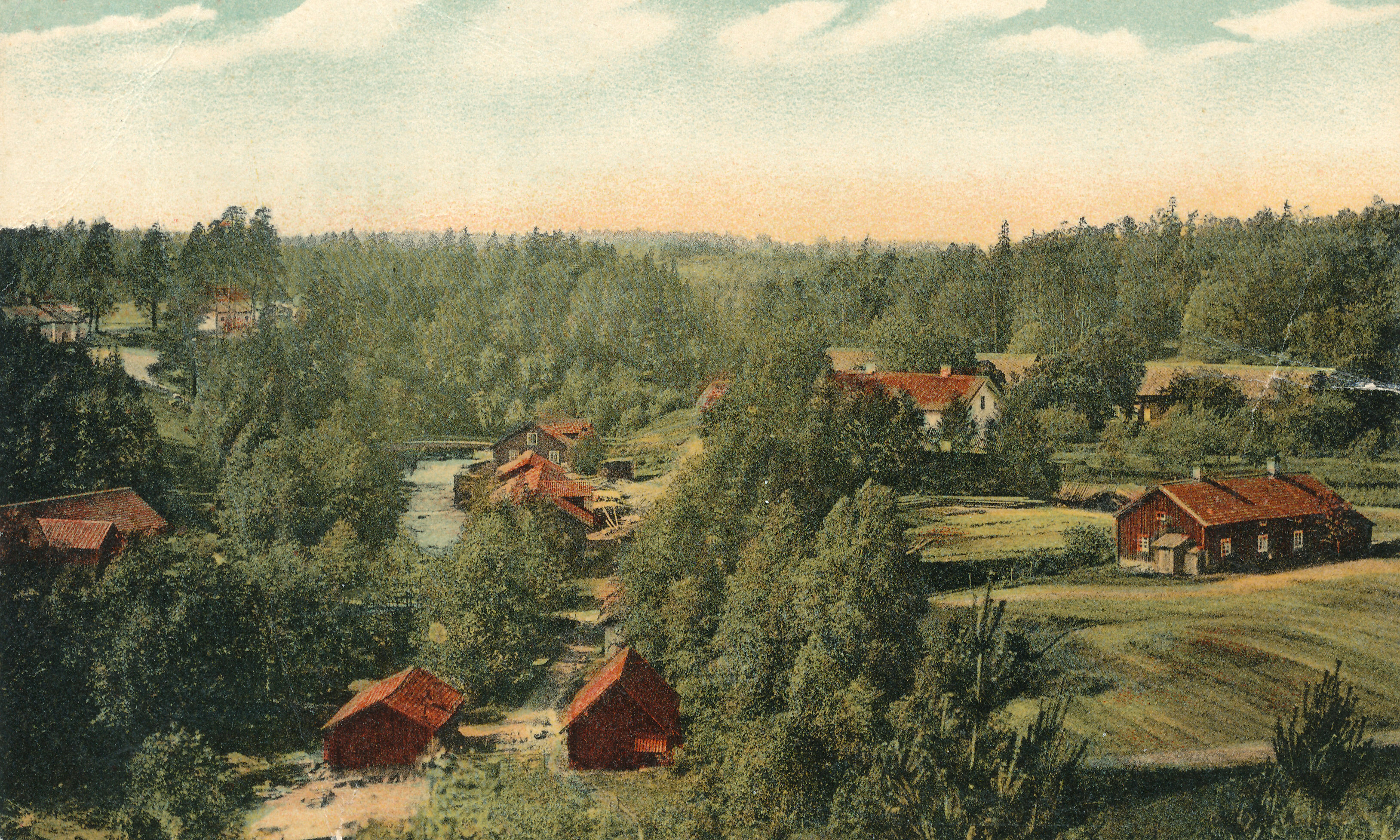 View over Bernshammar